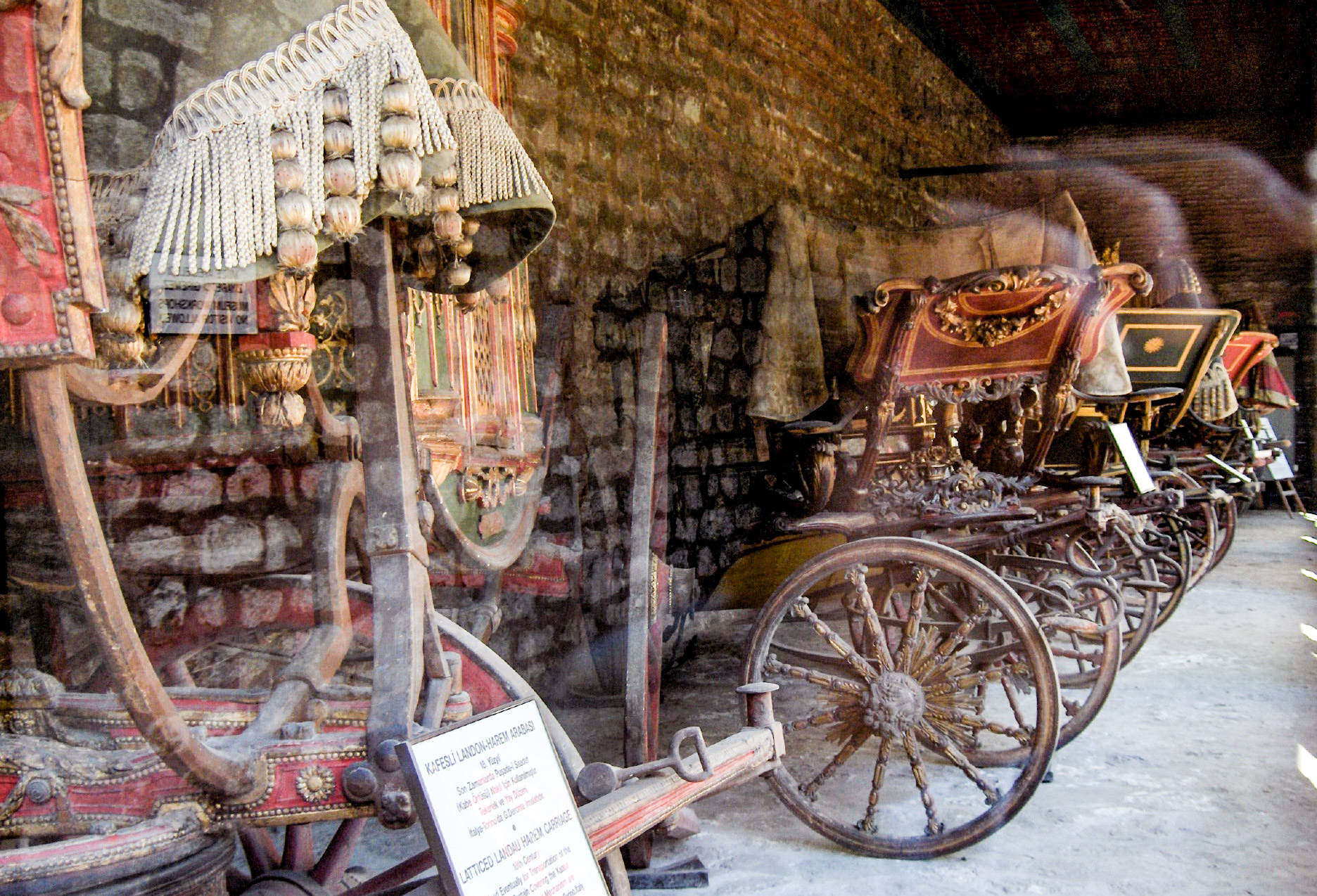 latticed landau harem carriage; Topkapı Palace, Istanbul, Turkey